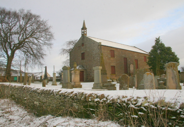 Church, Kirkton of Tealing This church is no longer in use as services are now held in Murroes church.